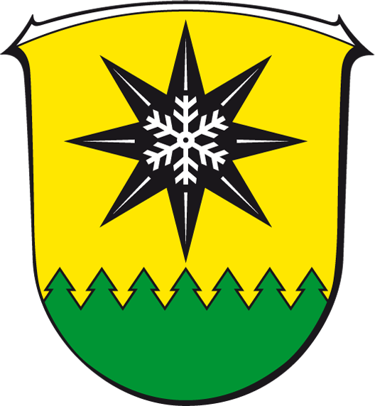 Coat of Arms of Willingen (Upland)